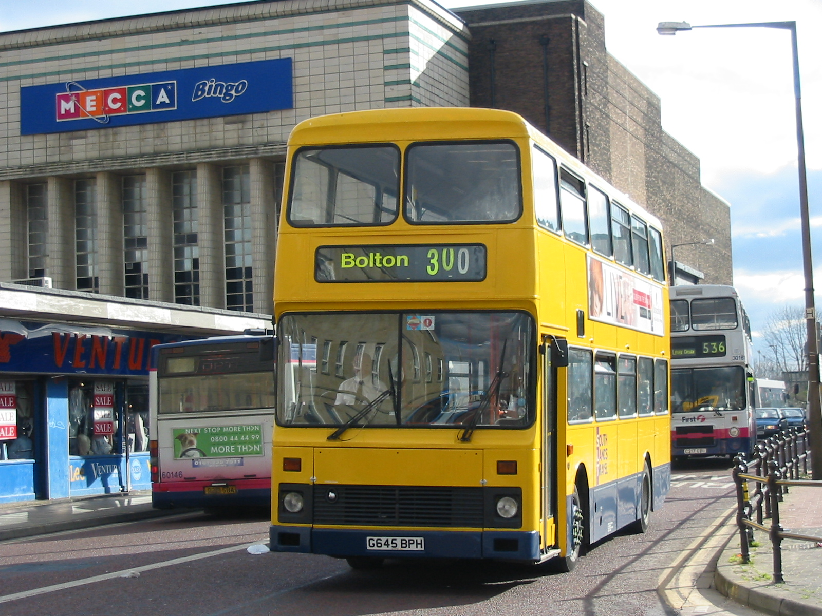 South Lancs Travel G645BPH, a Northern Counties-bodied Volvo Citybus new to London and Country.